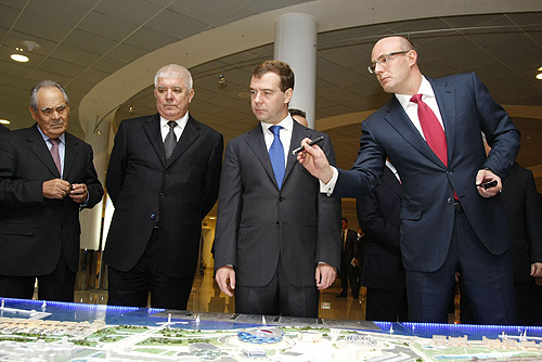 ODINTSOVO, MOSCOW REGION. With President of Tatarstan Mintimer Shaimiev, President of state corporation Olimpstroi Victor Kolodyazhny and head of the Sochi-2014 organising committee Dmitry Chernyshenko while inspecting models of Olympic facilities to be built in Sochi.